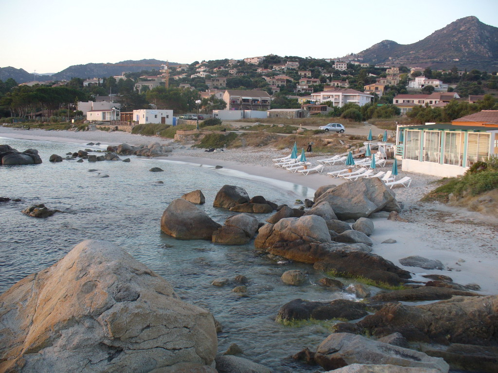 L'Ile-Rousse - sunrise on the beach